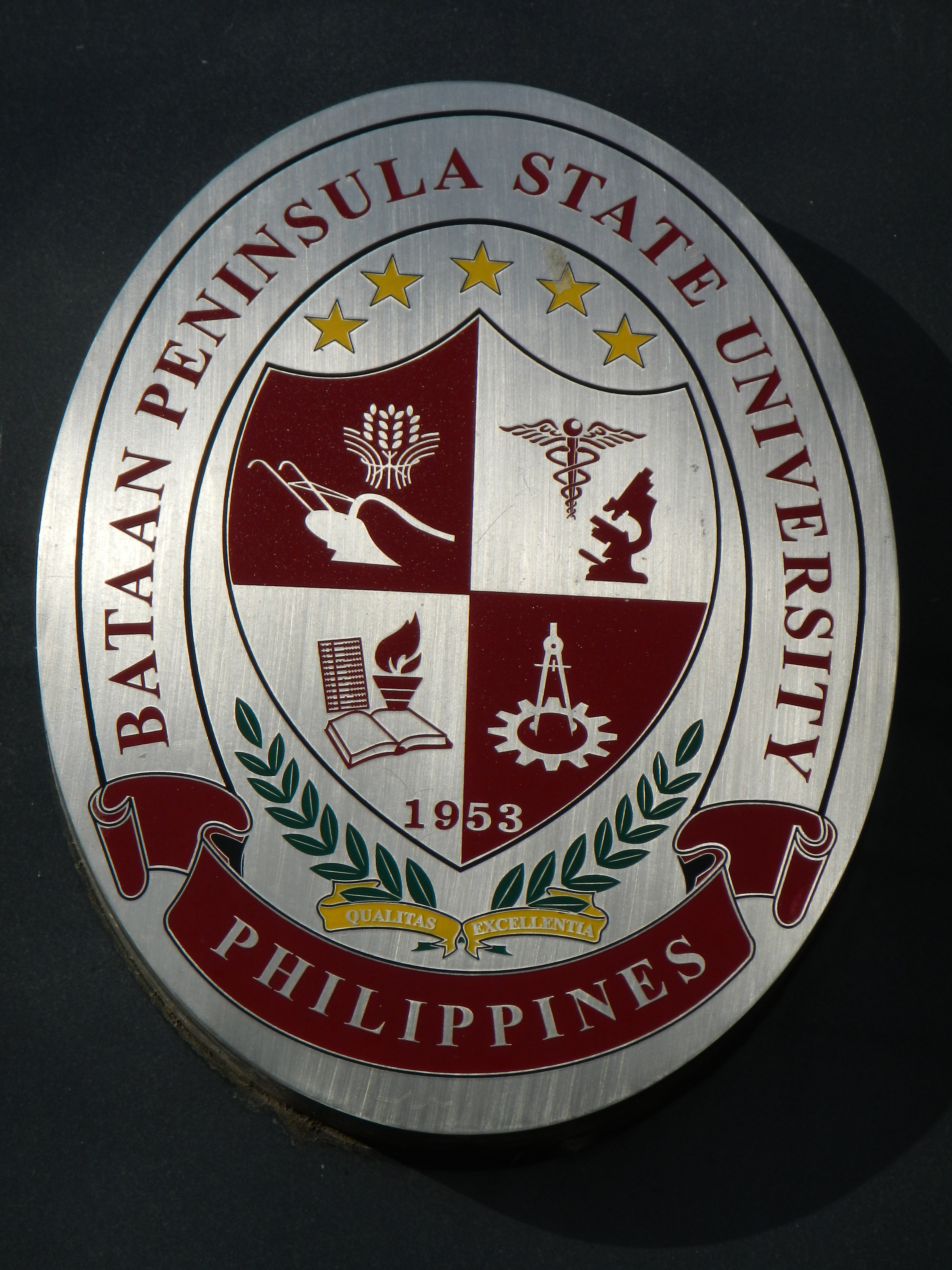 Bataan[1][2] Balanga City, Bataan[3] [4] Bataan Peninsula State University[5]